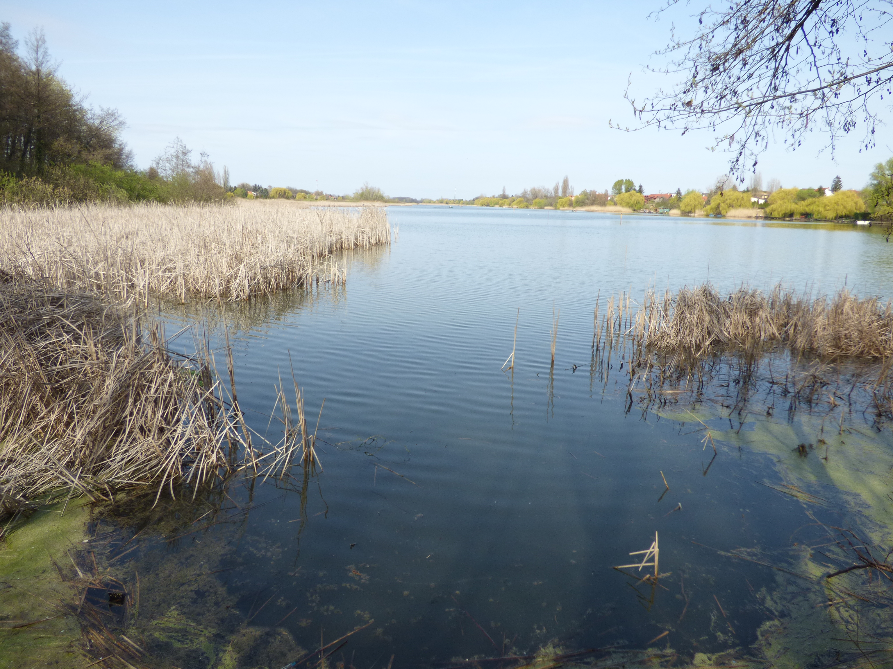 A Ráckevei-Duna Szigetszentmiklósnál